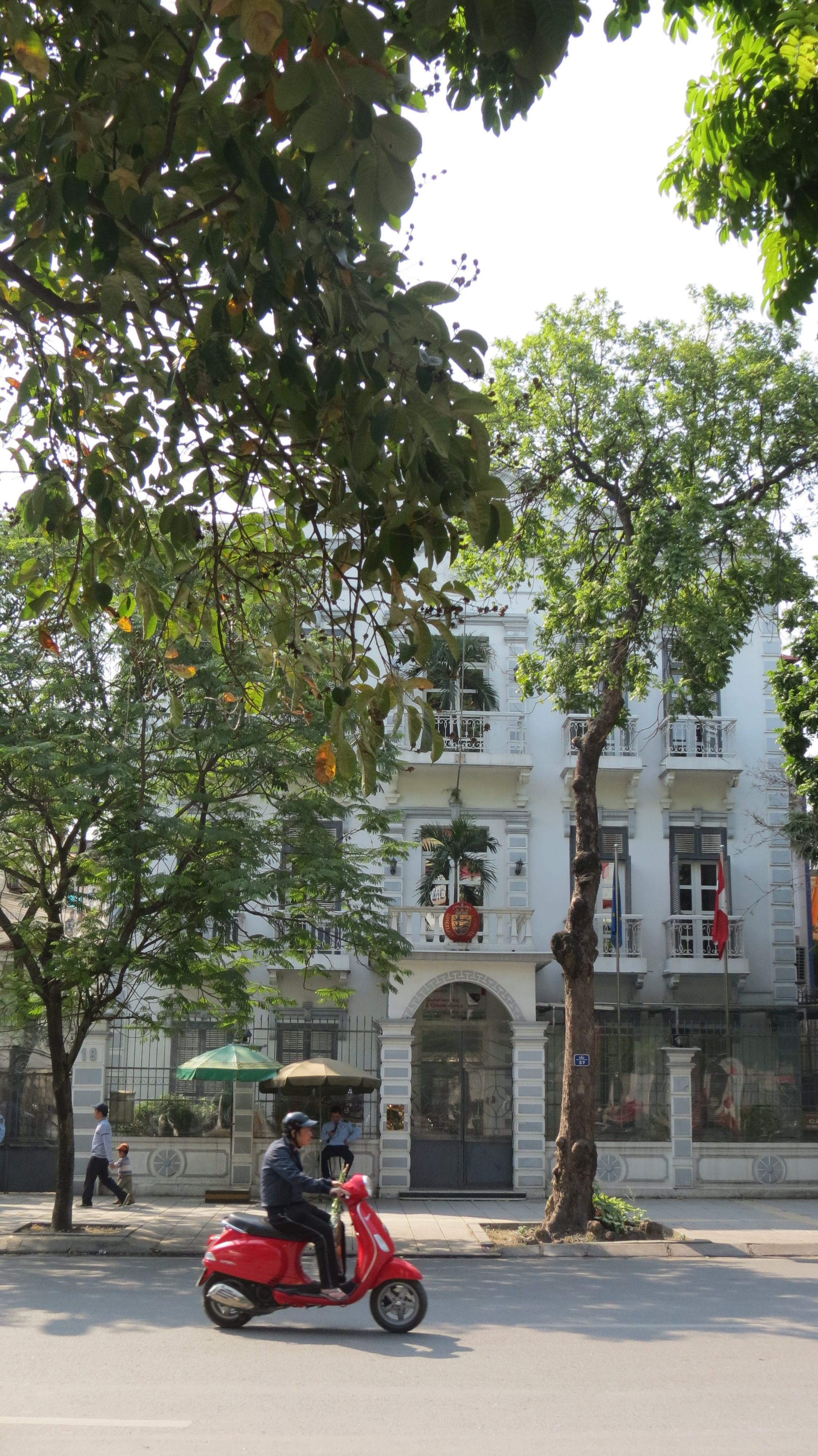 Danish Embassy in Hanoi, Vietnam.